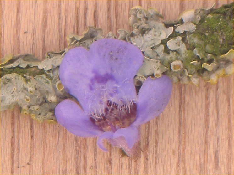 Glechoma hederacea